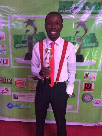 Receiving the award for the best On-Air Personality for an evening show from Nigeria Broadcasters Merit Awards